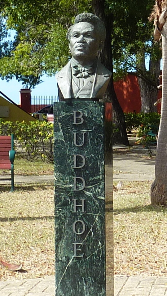 Buddhoe, Frederiksted, St. Croix, USVI, Jan 2013.